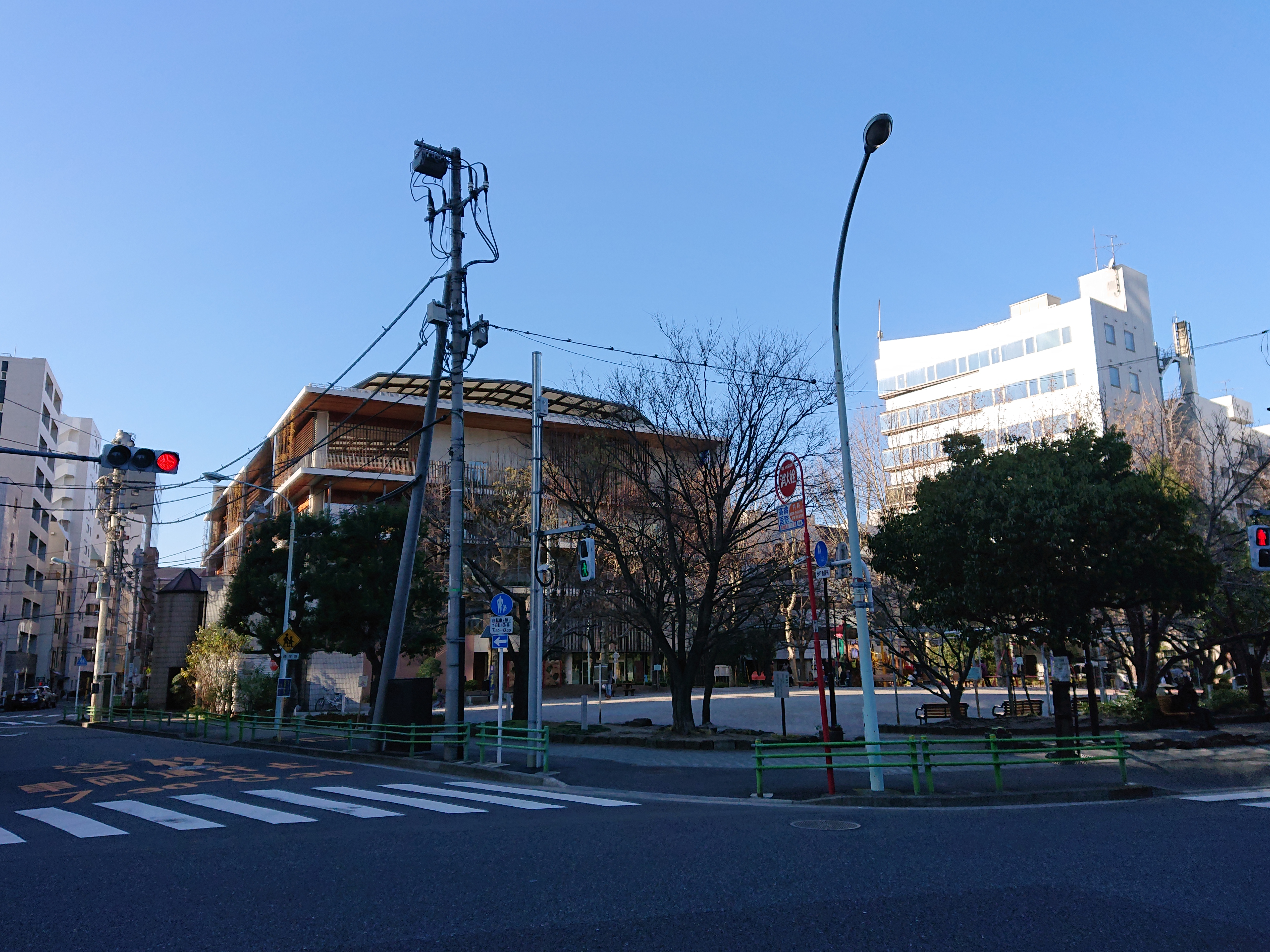 Chuo City Chuo Elementary School (中央区立中央小学校), located at 1-4-1 Minato, Chuo, Tokyo, Japan